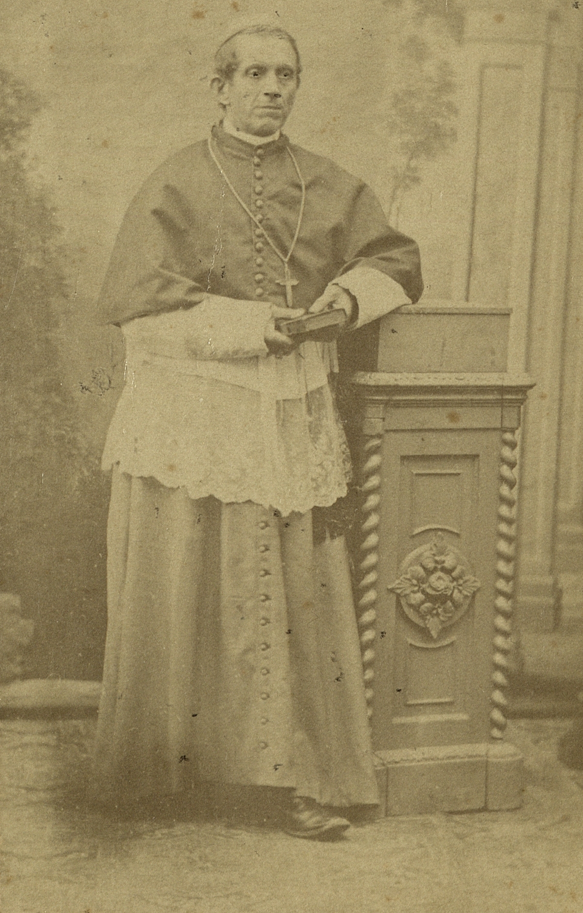 Ignacij Mrak (1810-1901), slovene bishop in USA.